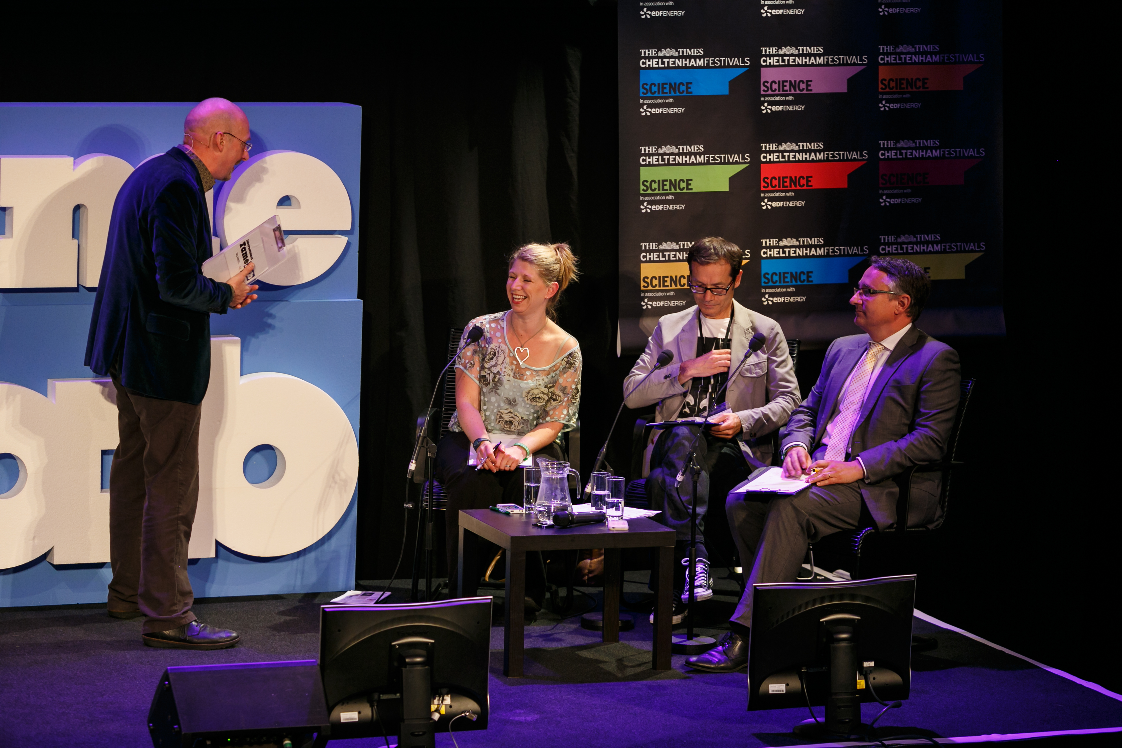 Quentin Cooper with Judges: Wendy Sadler, Mark Lythgoe, Martin Horwood MP